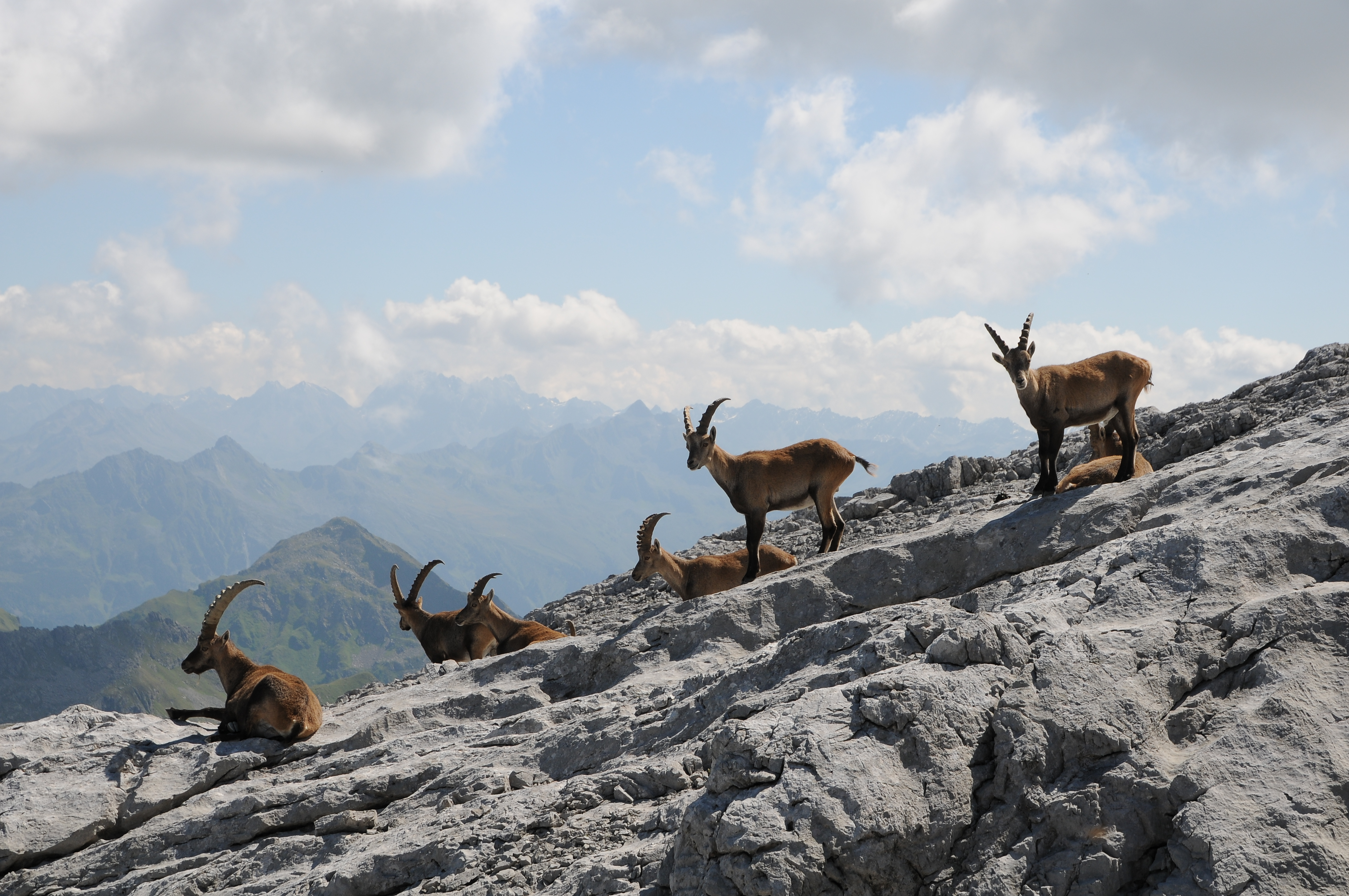 Descending from the Sulzfluh 2.817m, shortly before it goes into the throat, we disturb the siesta of the Alpine ibex.